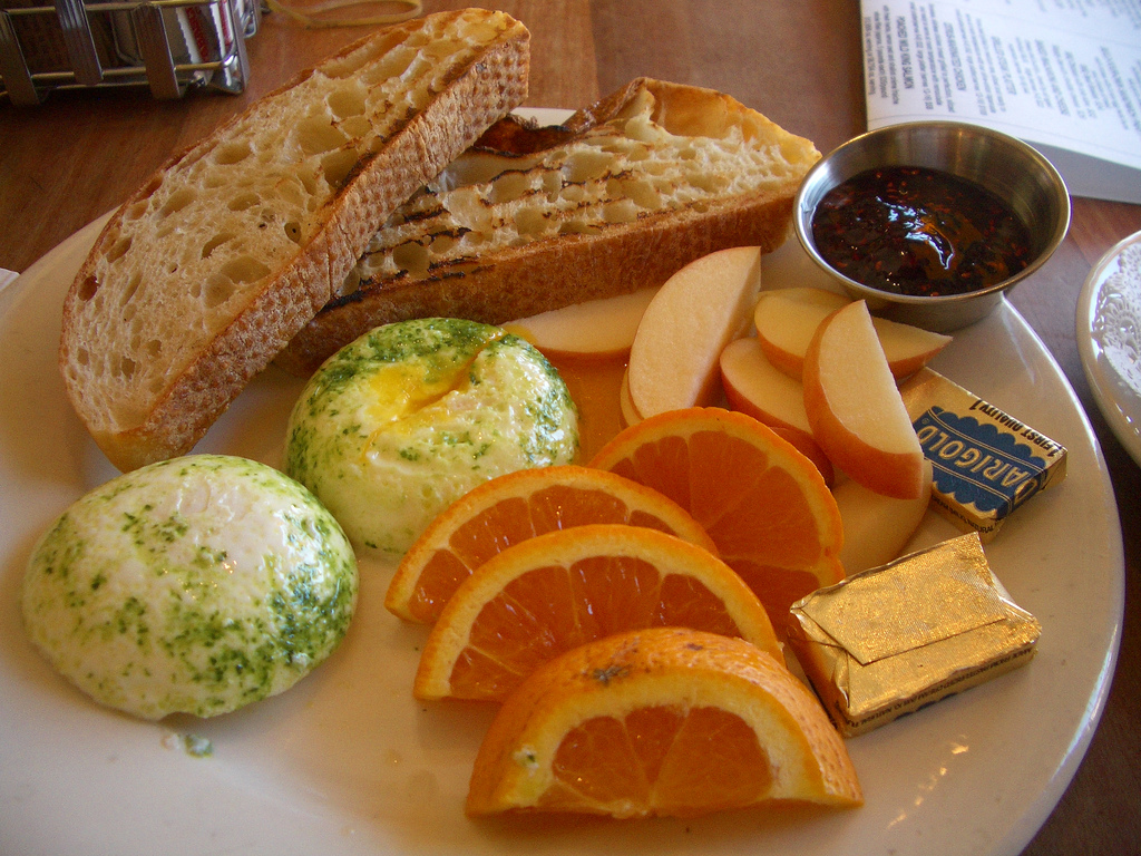 I got the poached eggs plate.